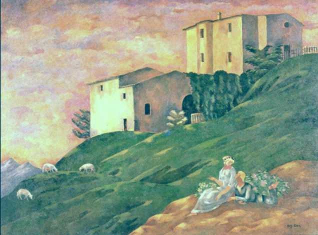 Sielanka by Eugeniusz Zak (15 December 1884 Mogilno, Belarus – 15 January 1926 Paris), a Belarusian artist.